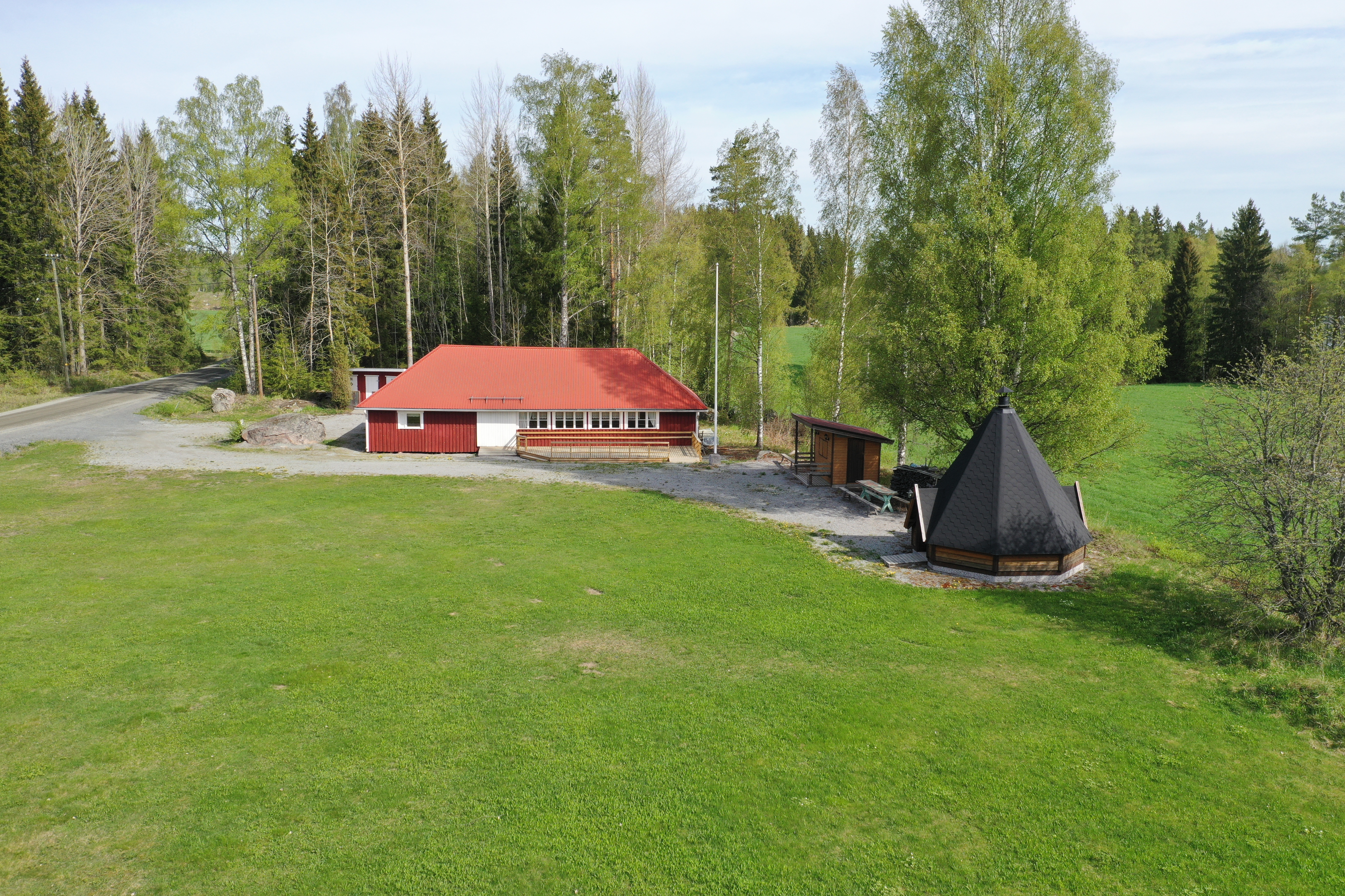 Sävi hall in Suodenniemi, Finland.